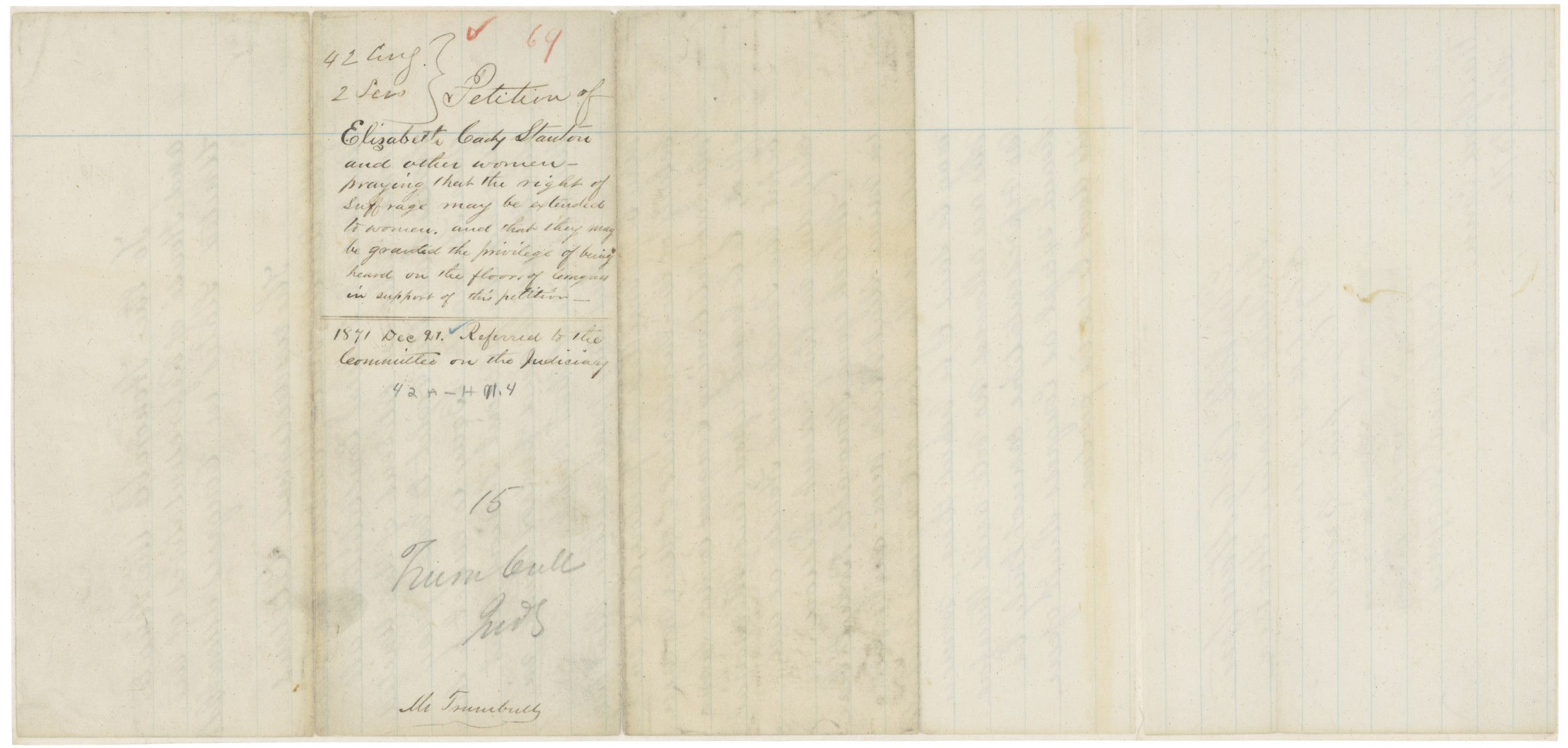 Letter